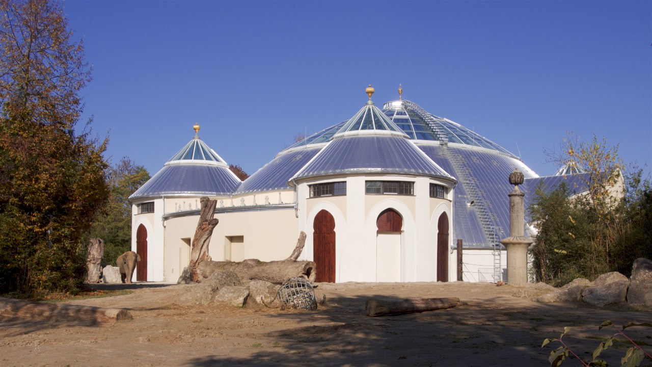 The Elefantenhaus in Hellabrunn Zoo after the 2016 renovation